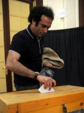 amr hamzawy